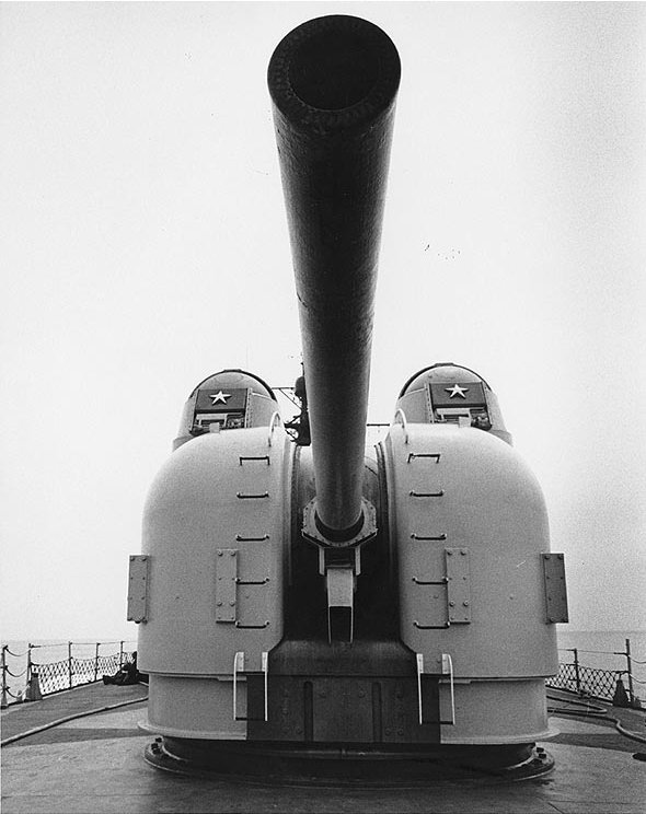 USS Turner Joy (DD-951): One of the ship's three 5"/54 Mark 42 gun mounts, showing paint on the barrel blistered and charred from day and night gunfire support operations south of the Vietnam Demilitarized Zone, April 1968.